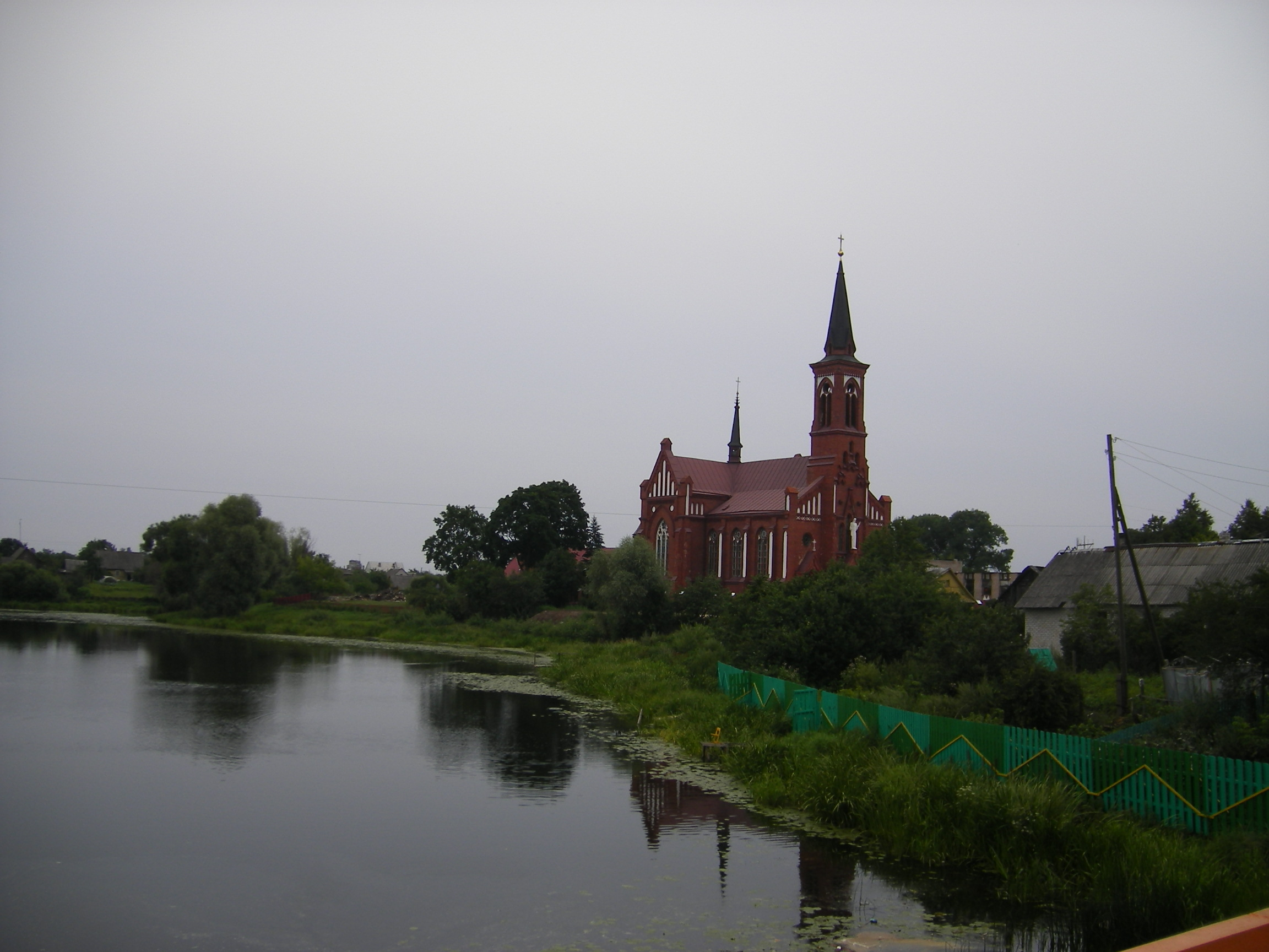 Pastavy, St. Anthony of Padua church